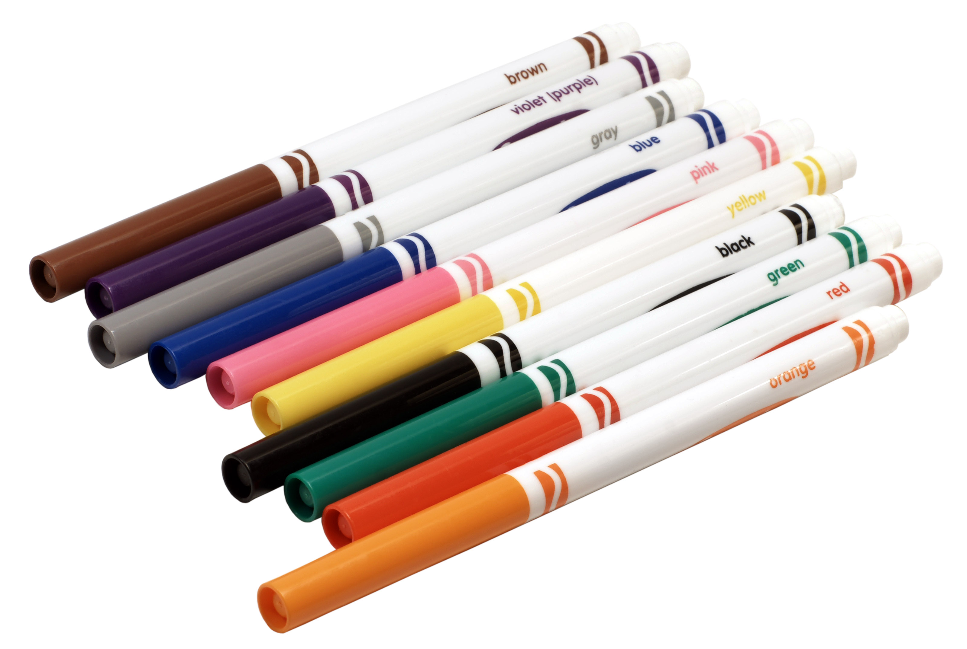 The markers in a standard 10-pack of Crayola Markers.